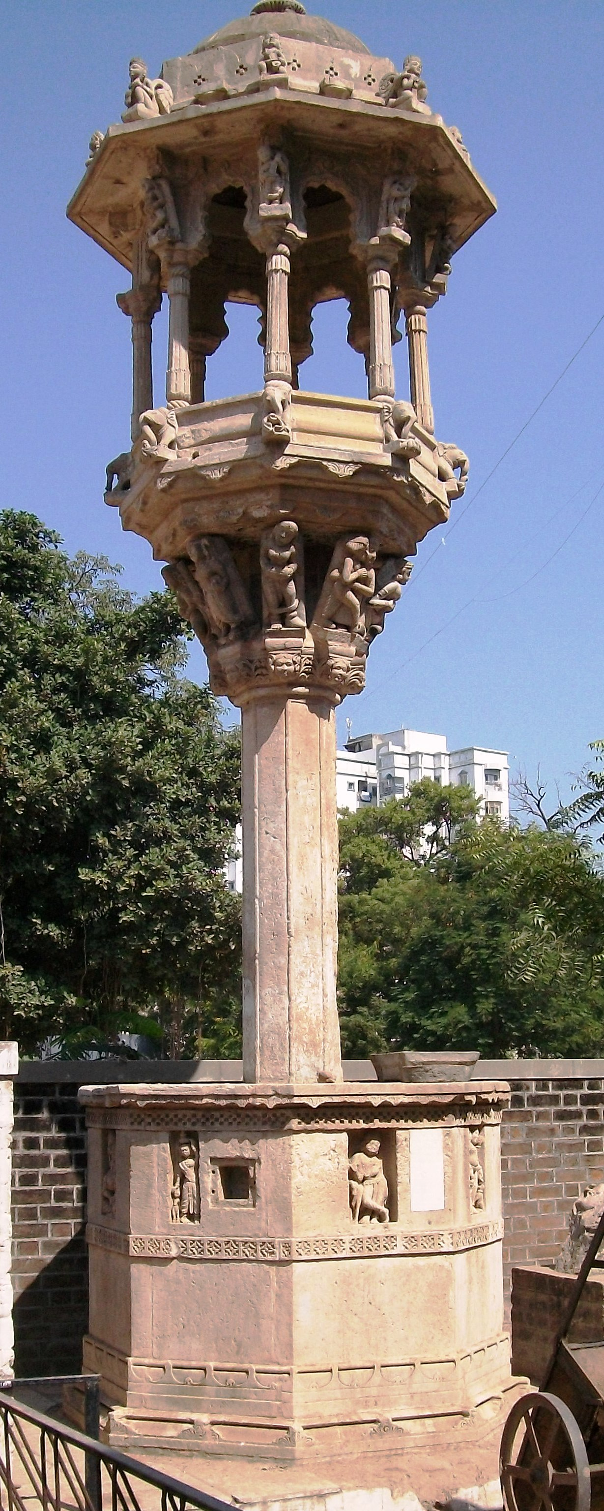 Chabutaro (bird feeding pole) at Sanskar Kendra, Ahmedabad, India. It is 120 years old and was originally in Kshetrapal ni Pol. Moved to Sanskar Kendra Museum. Other information Chabutaro (bird feeding pole) at Sanskar Kendra, Ahmedabad, India. It is 120 years old and was originally in Kshetrapal ni Pol.